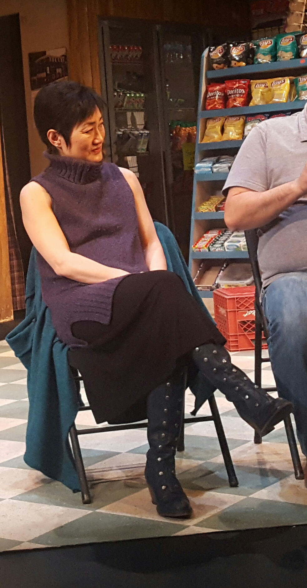 Jean Yoon photographed in Montreal, Quebec, Canada at the Segal Centre.